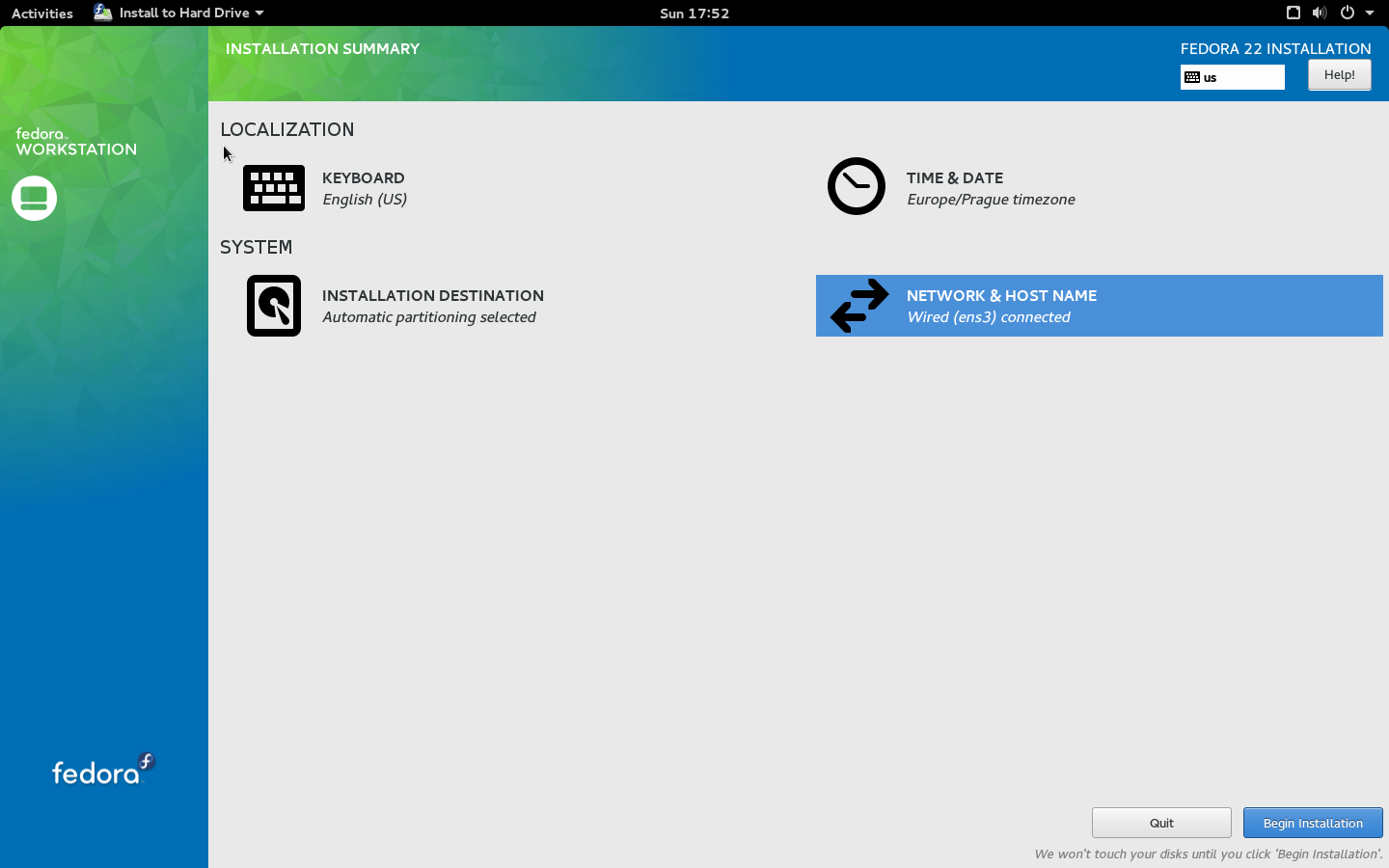 Screenshot from the Fedora 22 installation process showing things like "keyboard layout", "time & date" or "network & host name" summary.